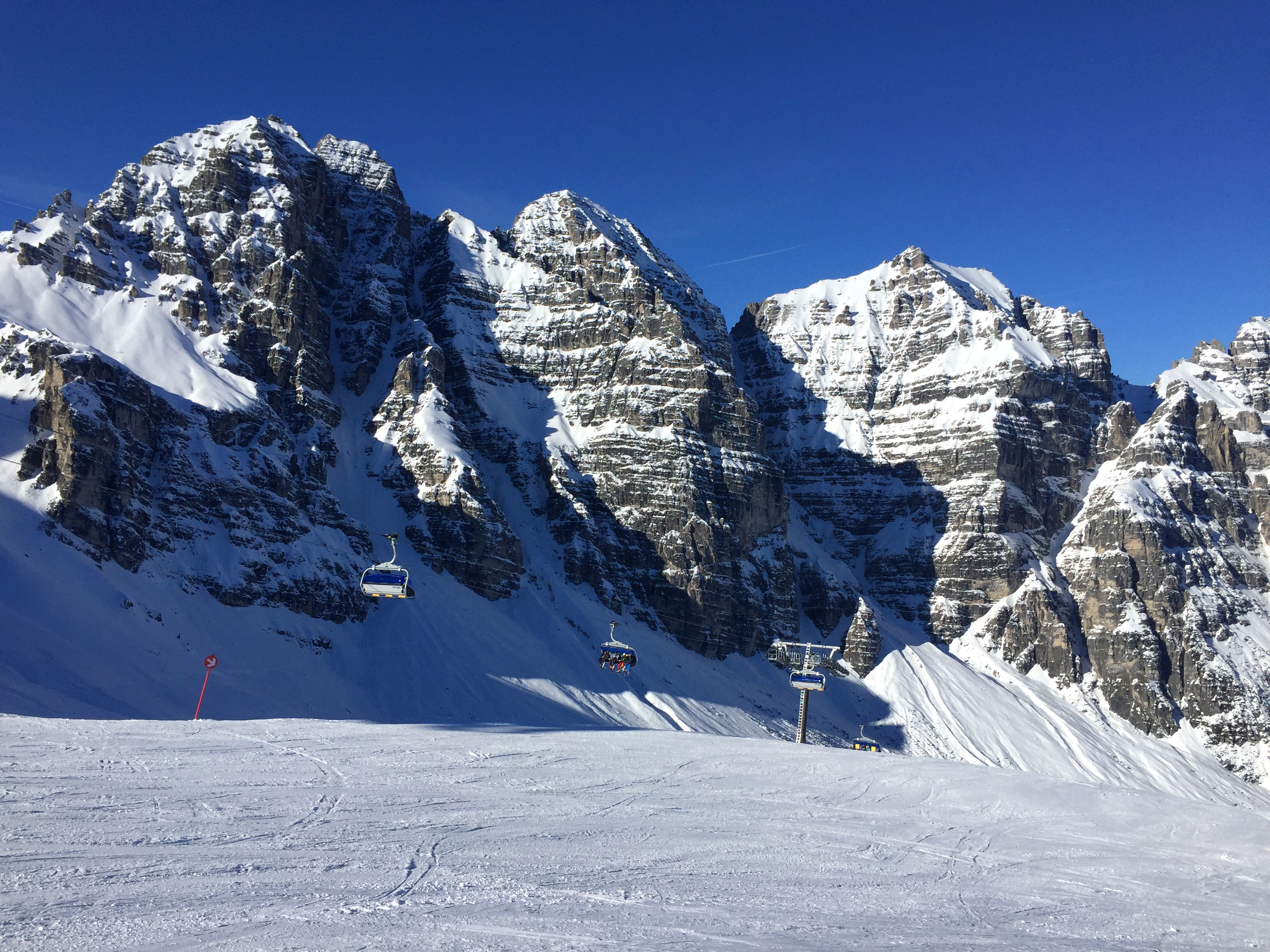 Schlick 2000 Snowboarding #schlick2000 #snowboarding #tirol #austria